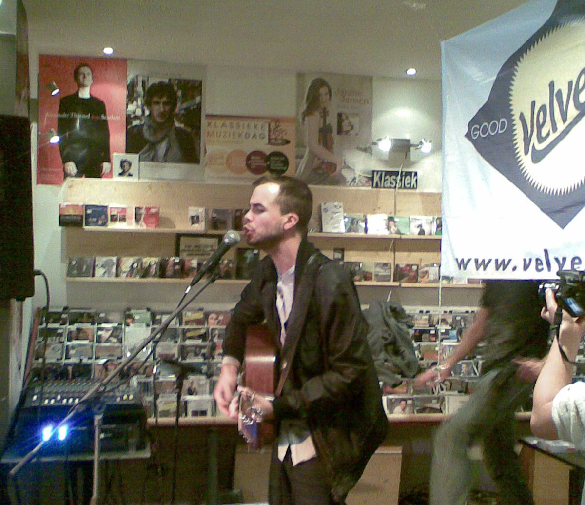 instore performance by Case Mayfield at Velvet Music in Leiden, the Netherlands, as part of his Record Store Day 2012 tour (April 21, 2012).